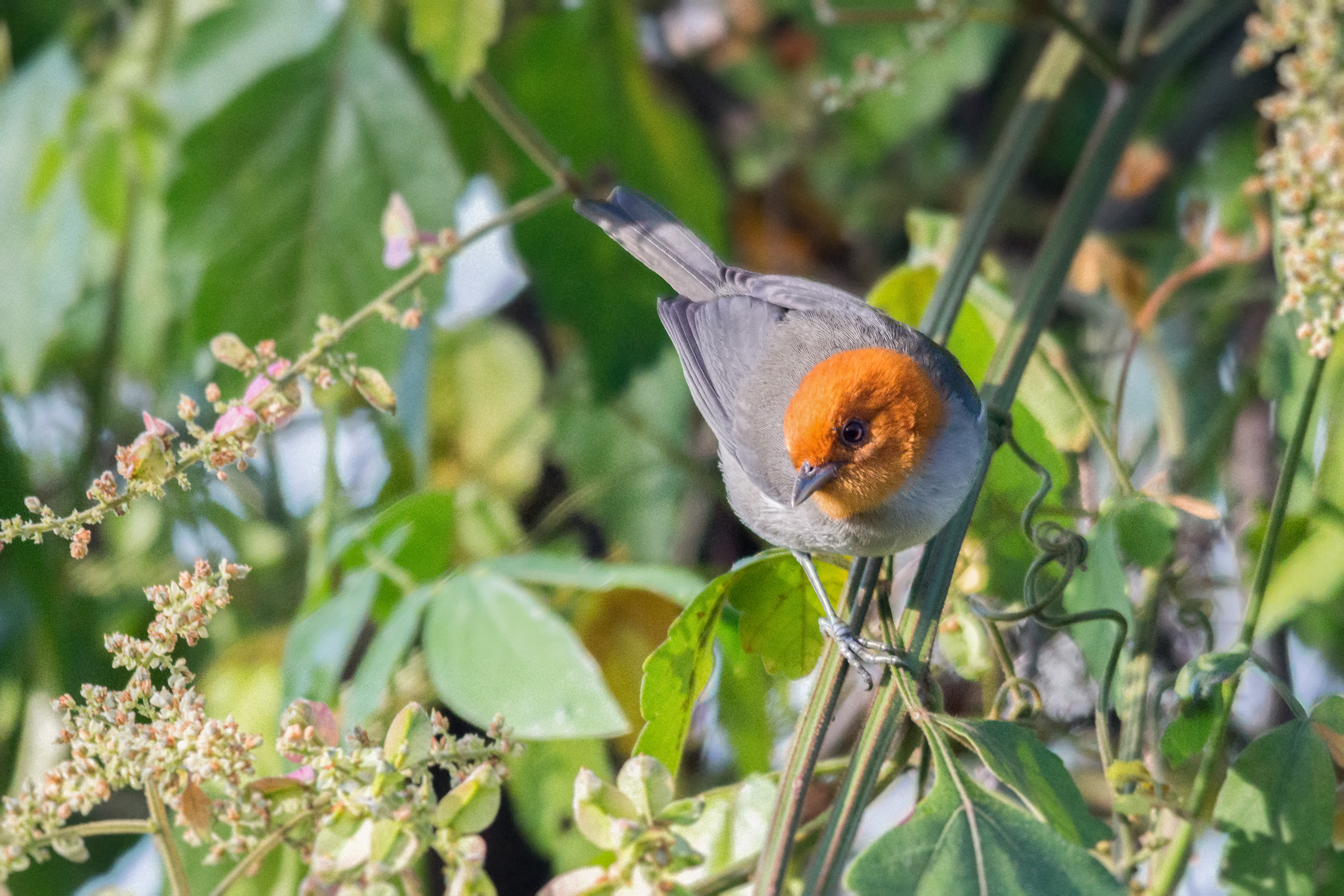 Fulvous-headed Tanager | Frutero Cabecileonado (Thlypopsis fulviceps fulviceps)